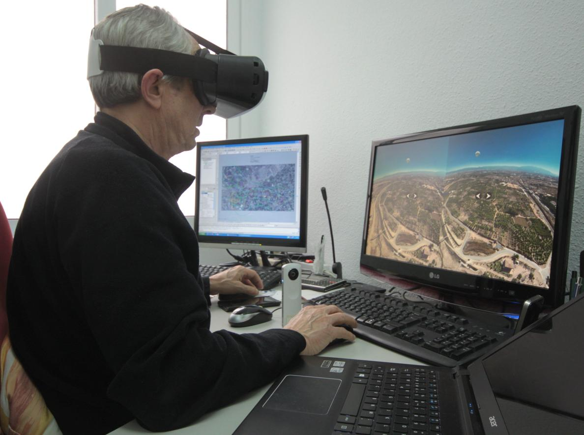 GeoVR Design Cabinet